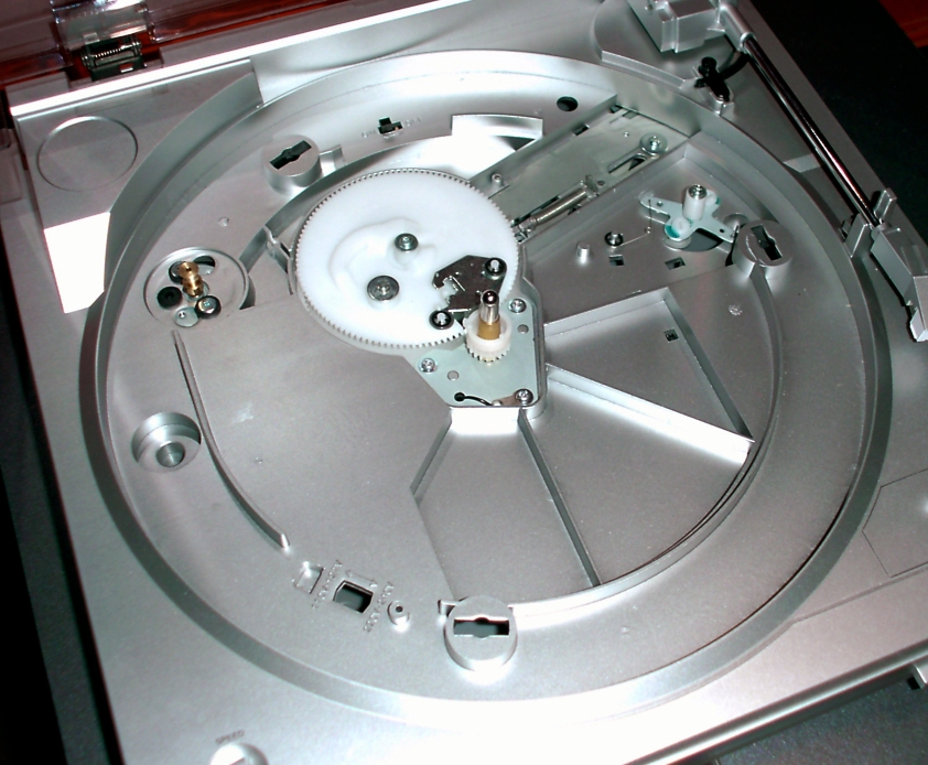 A Denon DP-29F belt-drive turntable. The motor pulley is the gold-coloured part to the left. Picture taken and released into the public domain by User:Kallemax.